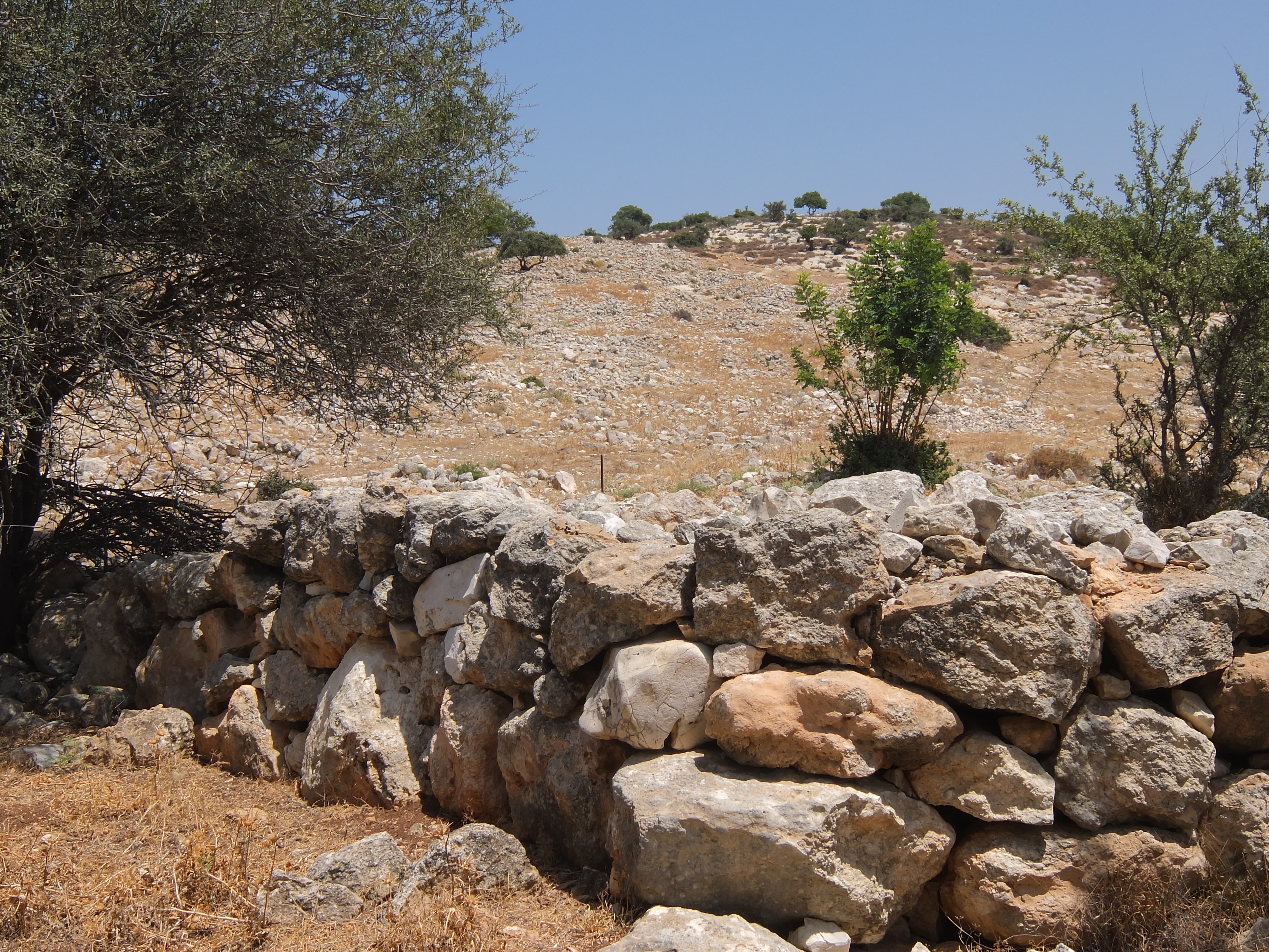 Ruins of Jarash, southwest of Jerusalem